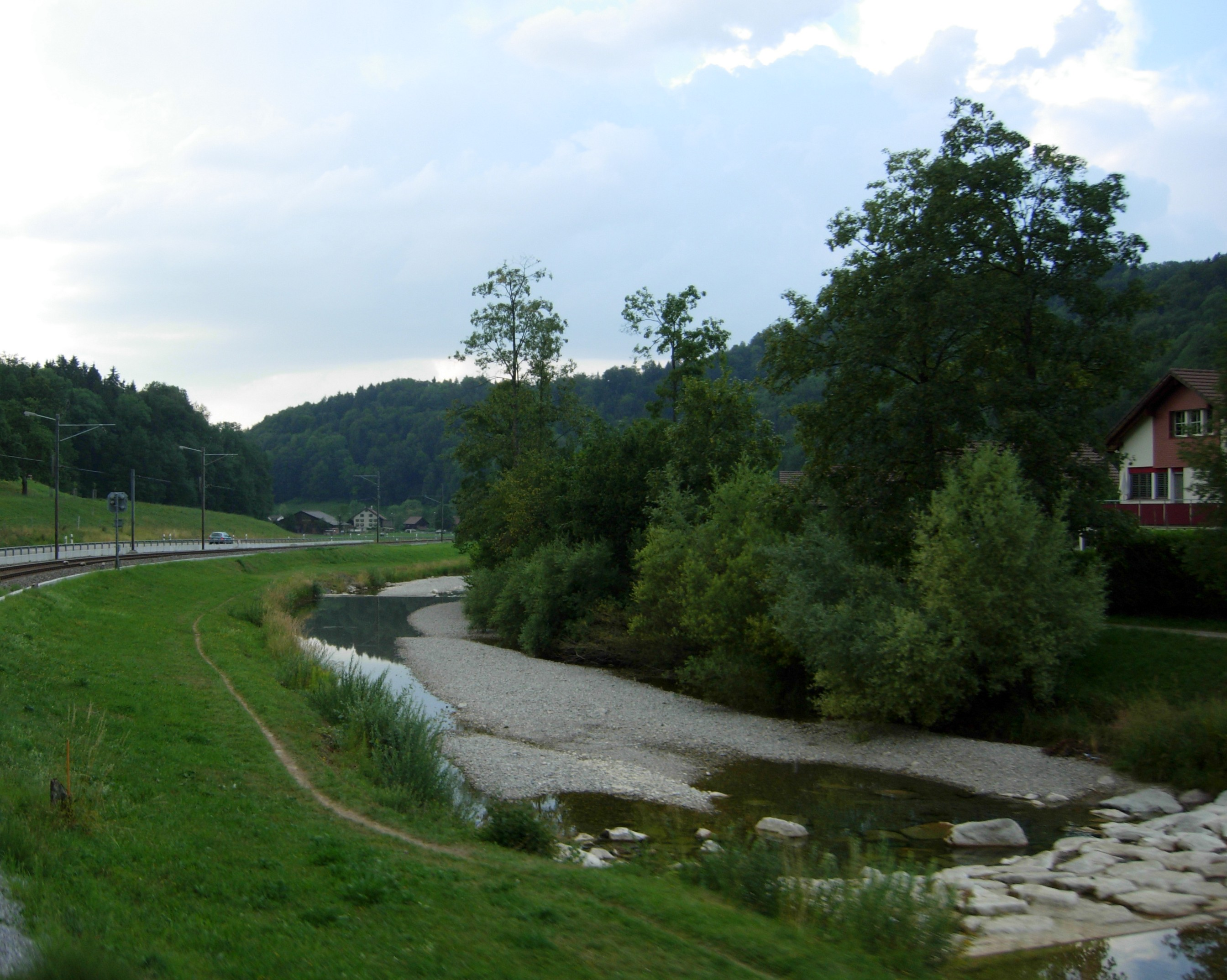 The river Töss is on the right along with some houses. The river is flowing away from the viewer here. A railroad track of the SBB is visible on the left along with a signal. This picture was taken from the S26 train.